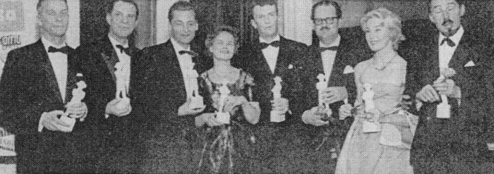 Jussi Award winners 1959. From left: Mauno Mäkelä, Holger Salin, Jussi Jurkka, rouva Lindeman (on behalf of her husband), Matti Kassila, Kalle Peronkoski, Tea Ista and Jack Witikka.